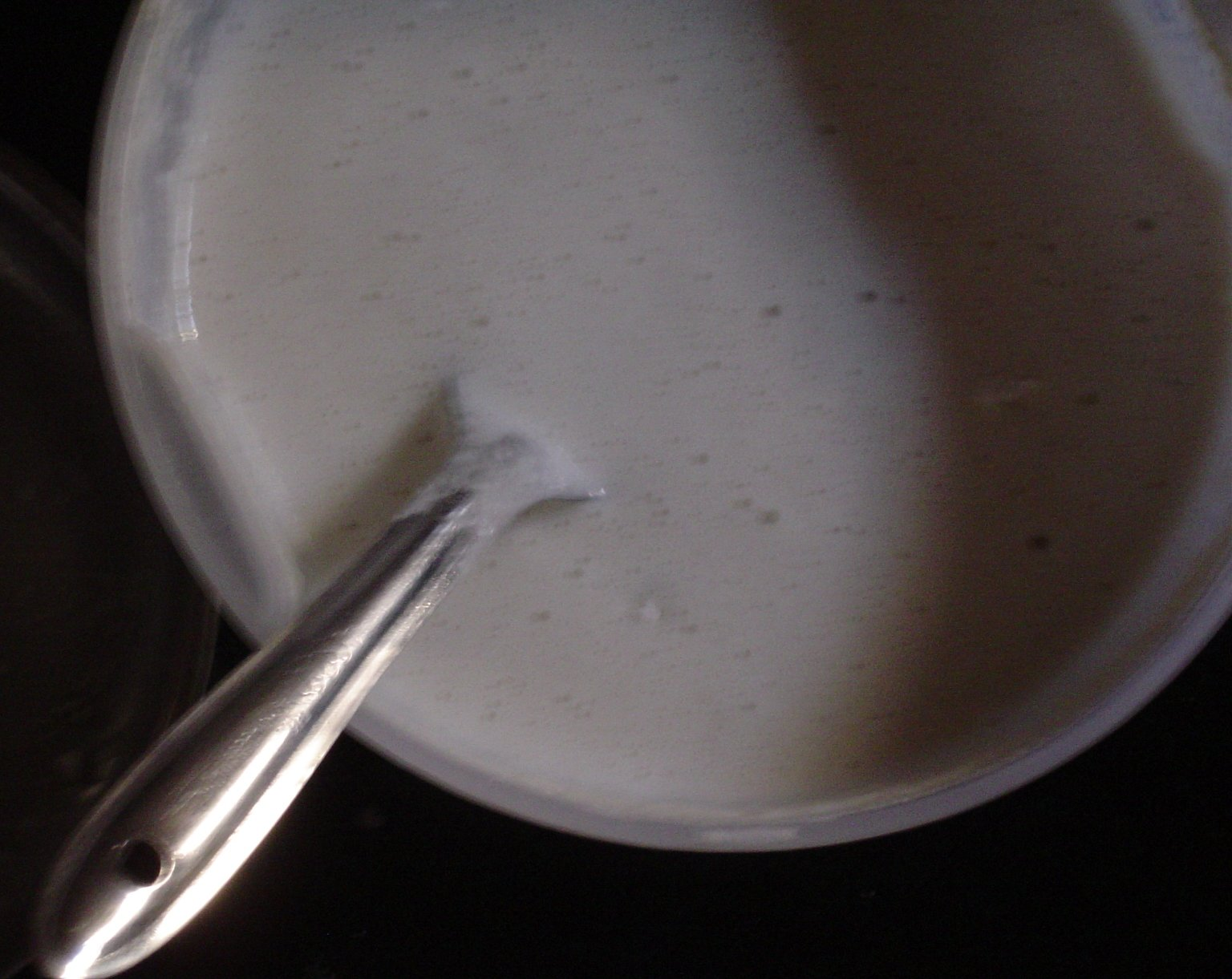 Batter used to make Dosa's.